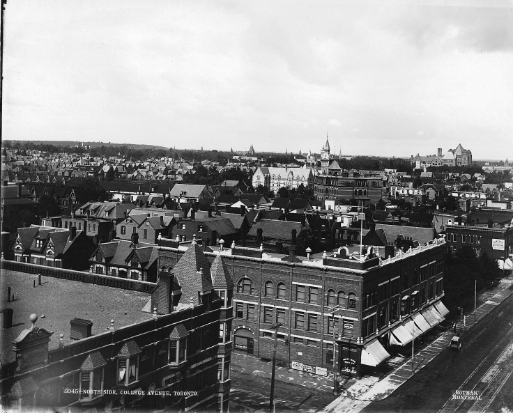 View of College Avenue (later College Street), Toronto, Canada.